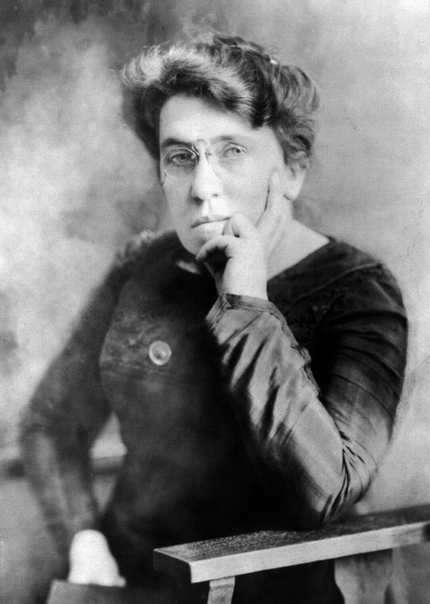 Photographic portrait of Emma Goldman, facing left. Cropped and restored from original Library of Congress version.